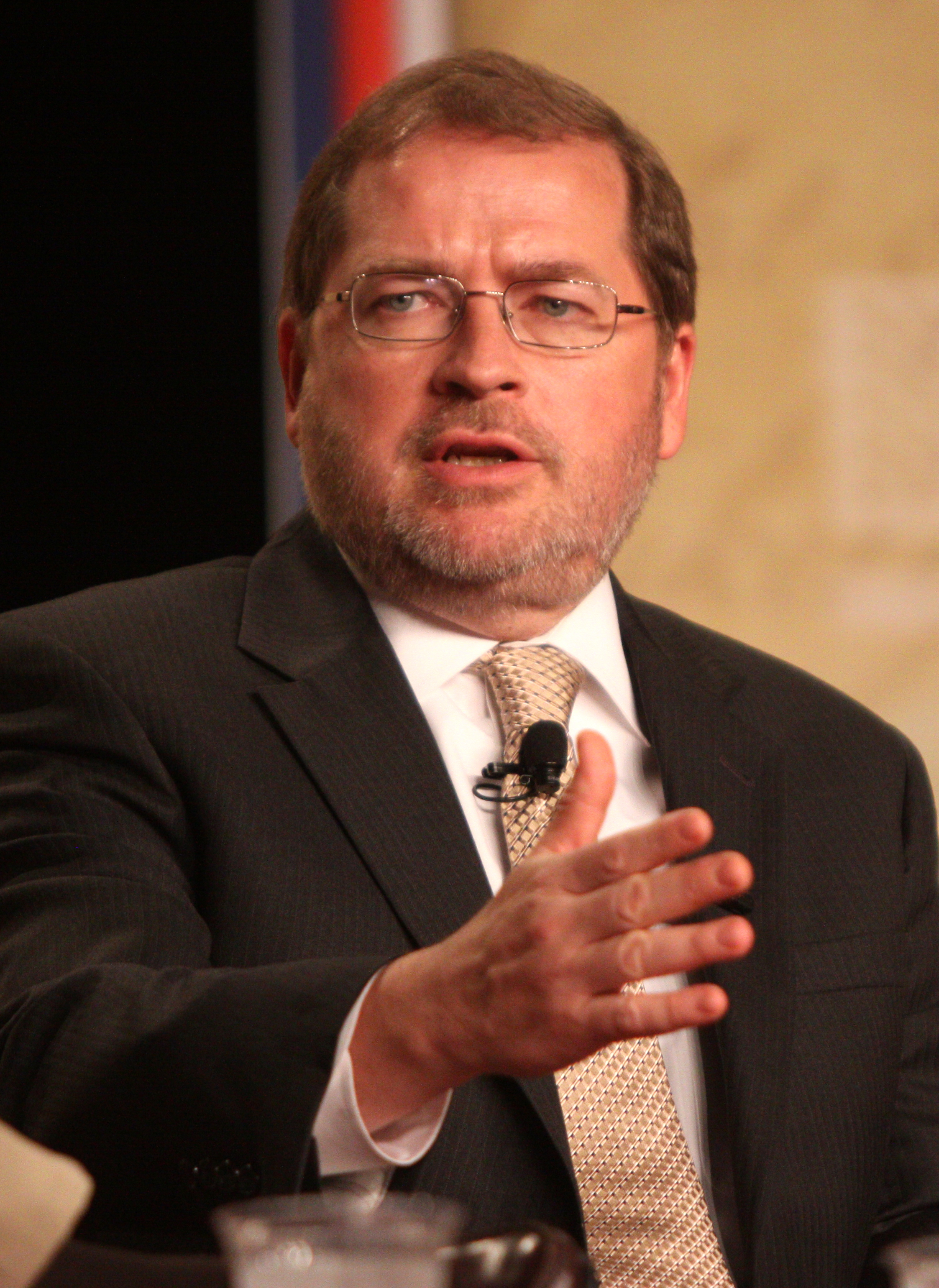 Grover Norquist at a political conference in Orlando, Florida.